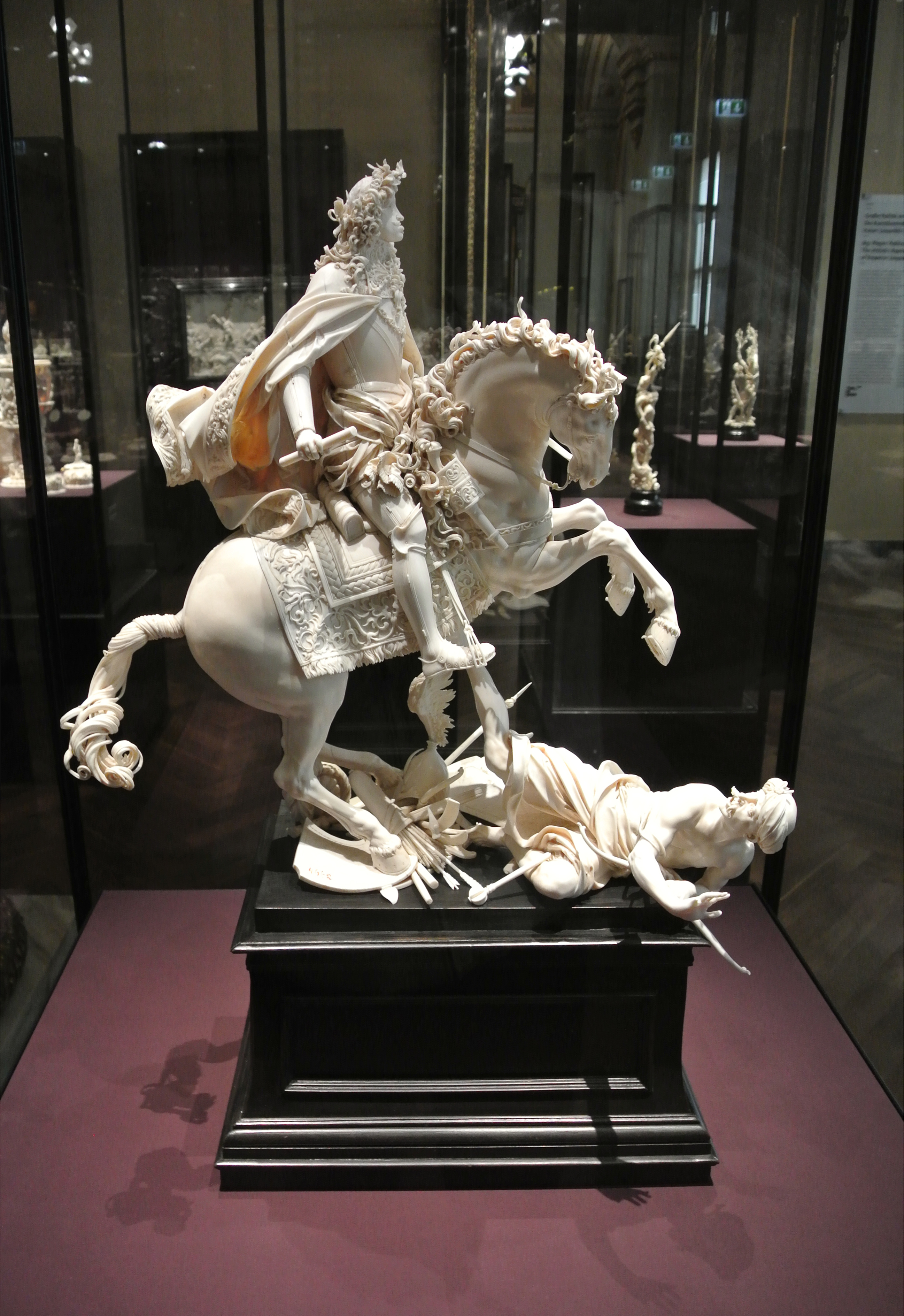 Seated proudly on horseback, Leopold I. leaps over a toppled Ottoman warrior. The imaginary battlefield is strewn with Turkish and French trophies. Together with its pendant, an equestrian portrait of Joseph I, this work constitutes a propagandistic double memorial which was displayed in the Imperial Treasure Chamber, thus illustrating the preeminent position of the House of Hapsburg as major European power.